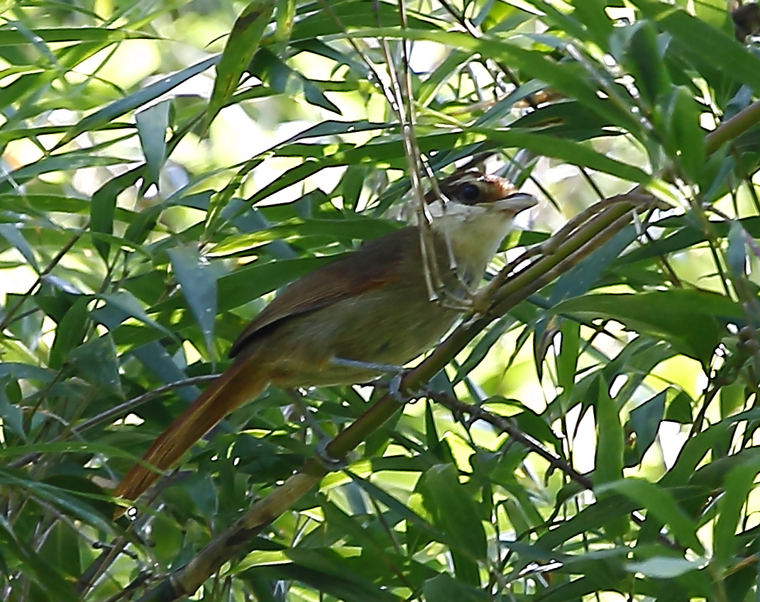 White-bearded antshrike (female) at Intervales State Park, SP, Brazil